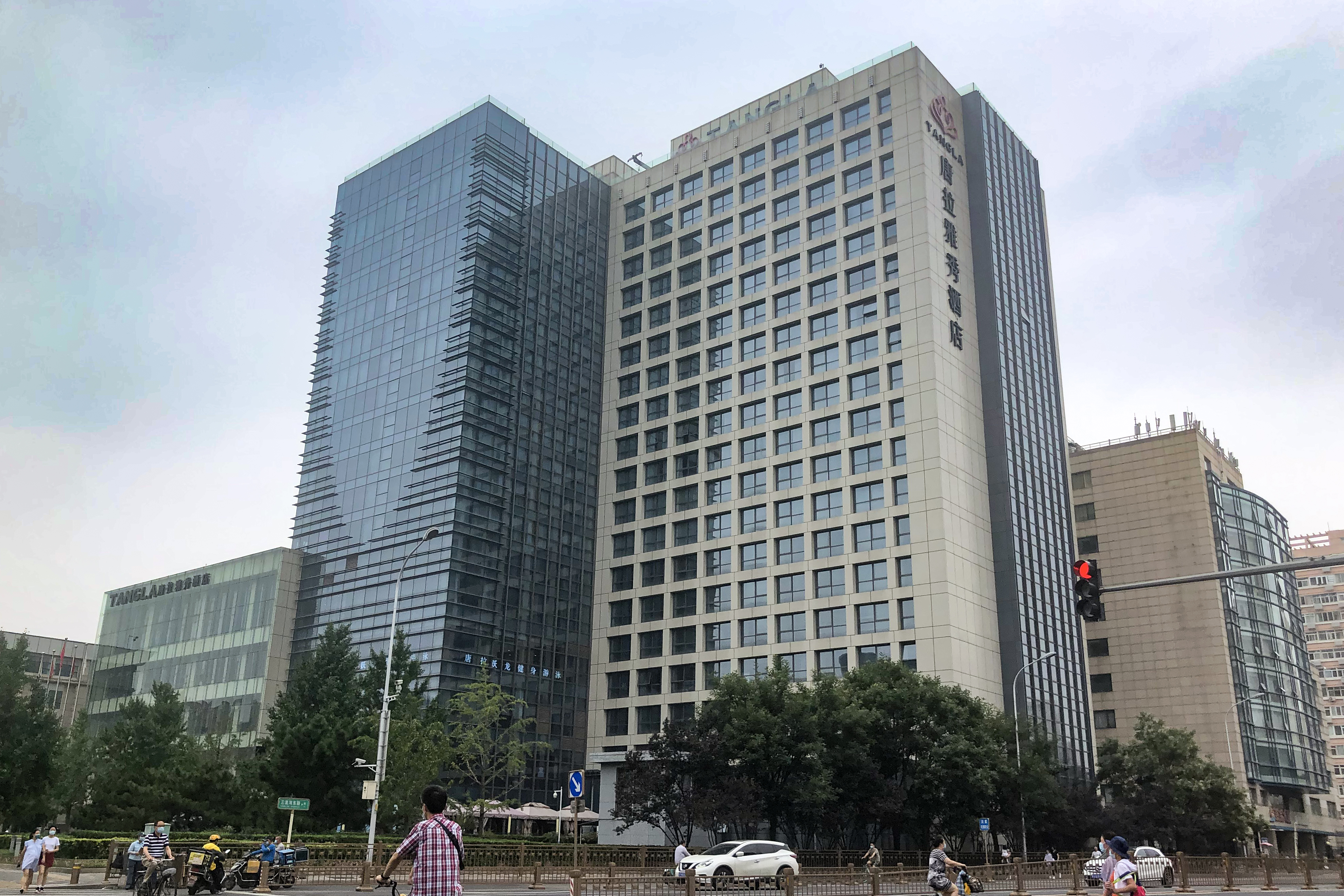 Formerly called Yanjing Hotel?